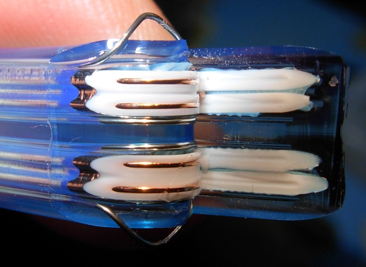 Cross section of a well made SATA-3 Cable showing separated and foil shielded differential pairs for the two signals. The copper conductors are centered within the dielectric to give a uniform controlled impedance to the signal.